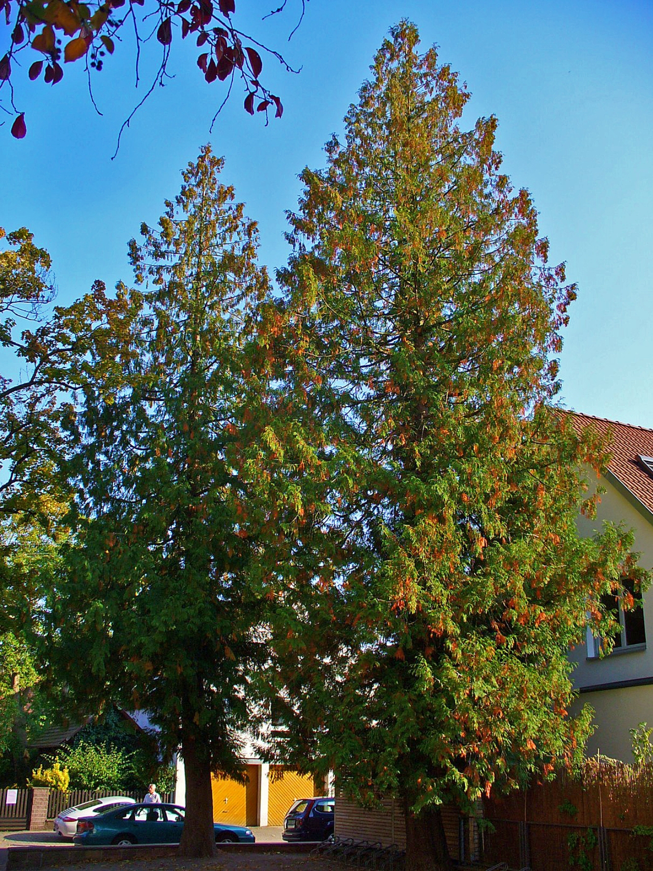 Thuja occidentalis, Cupressaceae, Eastern Arborvitae, Northern Whitecedar, habitus. Karlsruhe, Germany.